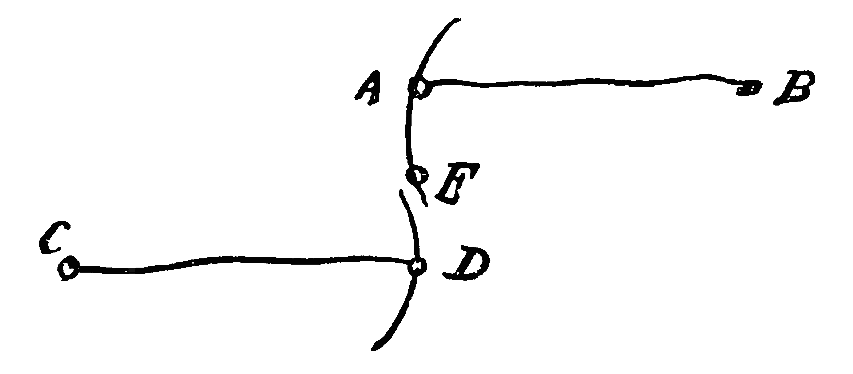 Hand-drawn diagram by James Watt explaining his discovery of the "parallel motion" in a letter to his Sohn: "The idea originated in this manner. On finding double chains, or racks and sectors, very inconvenient for communicating the motion of the piston-rod to the angulat motion of the working-beam, I set to work to try if I could not contrieve some means of performing the same form motions turning upon centres, and after some time it occured to me that AB, CD, being two equal radii revolving on the centres B and C, and connected together by a rod AD, in moving through arches of certain length, the variations from straight line would be nearly equal and opposite, and that the point E would describe a line nearly straight, and that if for convenice the radius CD was only half of AB, by moving the point E nearer to D, the same would take place; and from this the construction, afterwards called the parallel motion was derived."